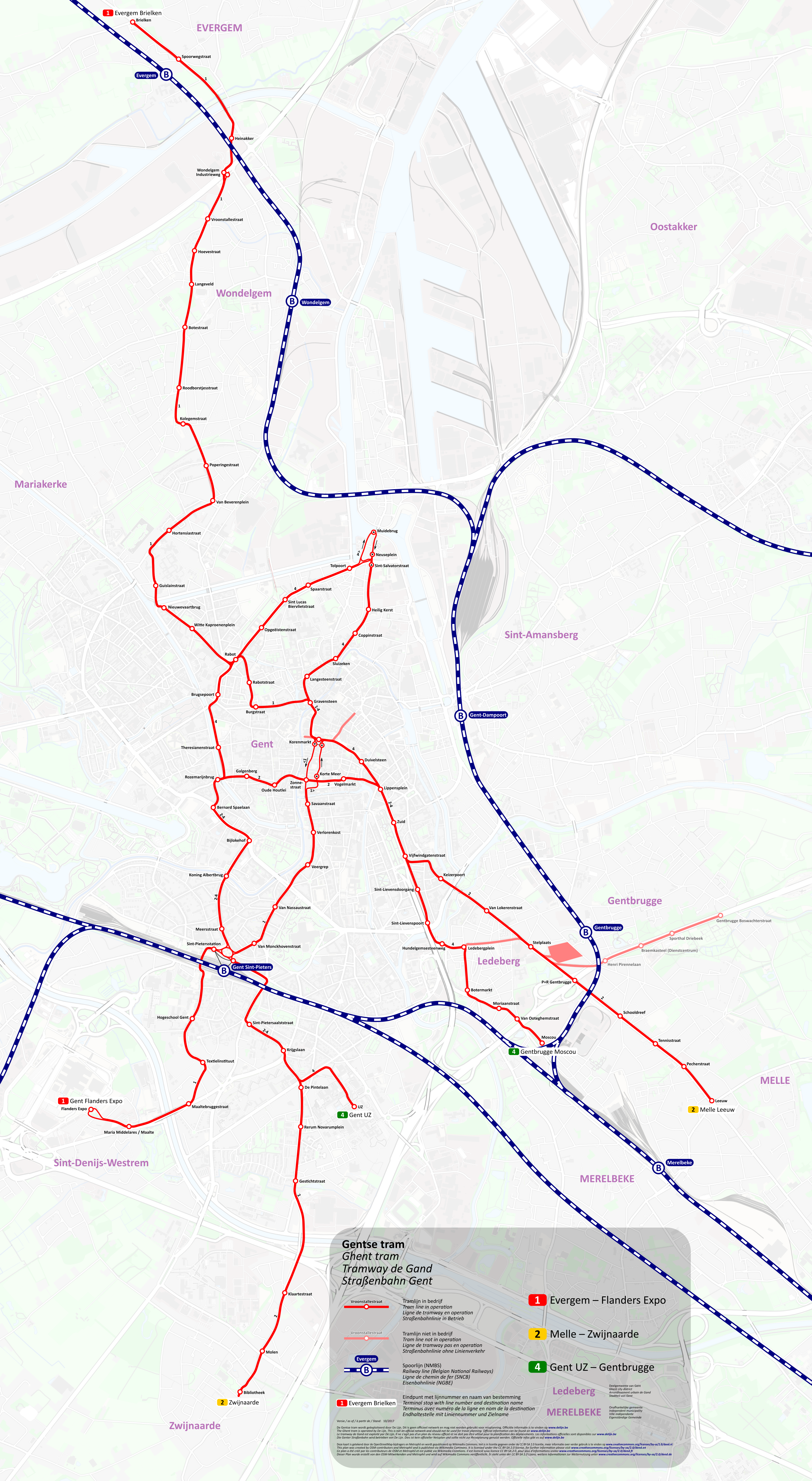 Geographic tram map of Ghent, Belgium as of 2017.